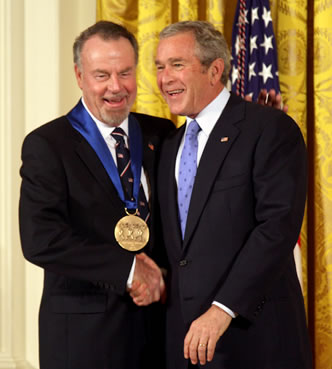 Caption by the National Endowment for the Arts: The 2006 National Medal of Arts is awarded to Erich Kunzel, conductor of the Cincinnati Pops Orchestra, and presented by President Bush on November 15, 2007 in an East Room ceremony. (Mr. Kunzel was not able to attend last year's ceremony.) Mr. Kunzel received the award "for his innovative achievements as a conductor. His remarkable Pops performances of classical and popular music have expanded the appeal of both and brought great music to millions. The National Medal of Arts is a presidential initiative managed by the National Endowment for the Arts."